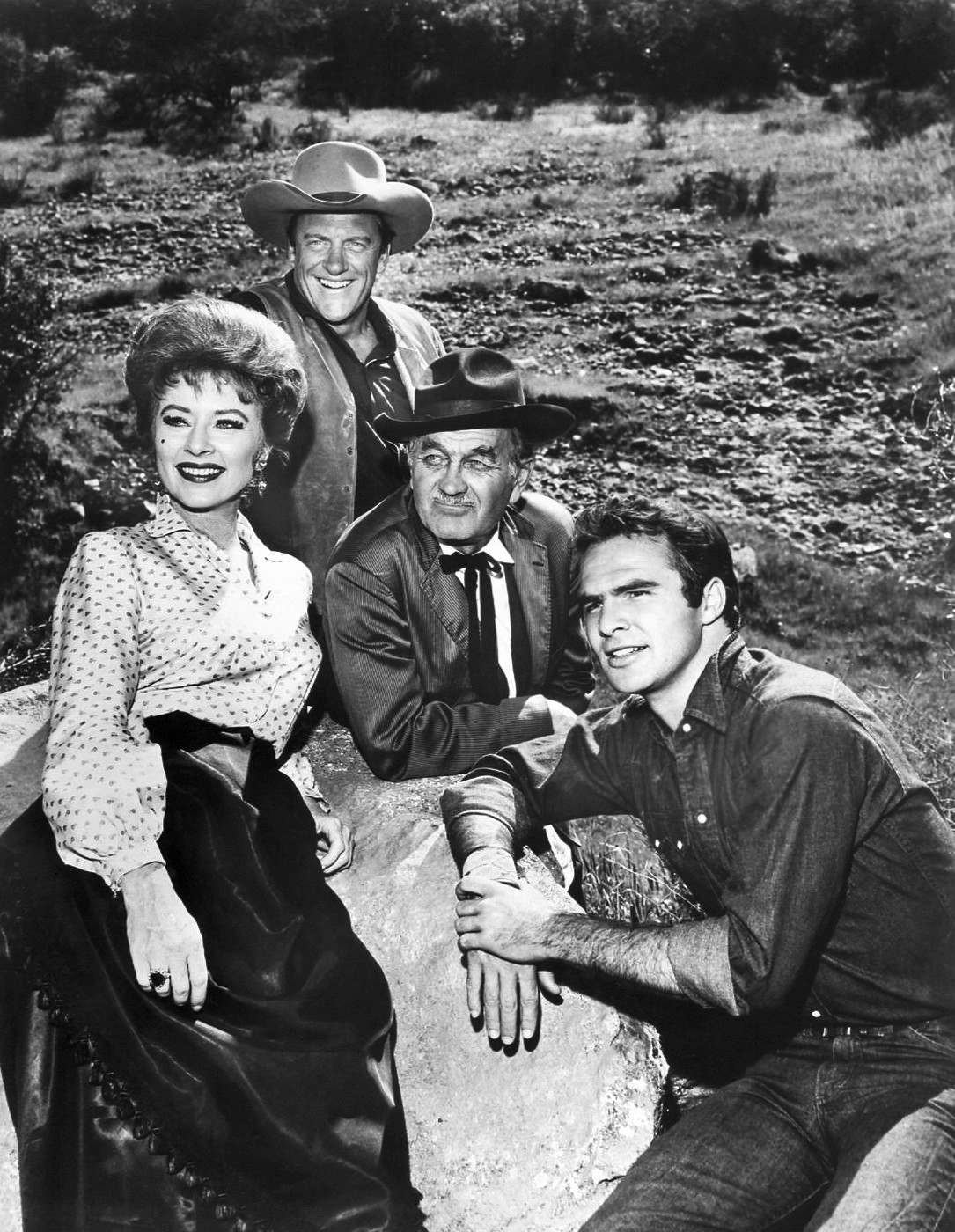 Photo of the main cast for the television program Gunsmoke in 1963. From left: Amanda Blake (Miss Kitty), James Arness (Matt Dillon), Milburn Stone (Doc Adams), and Burt Reynolds (Quint Asper).